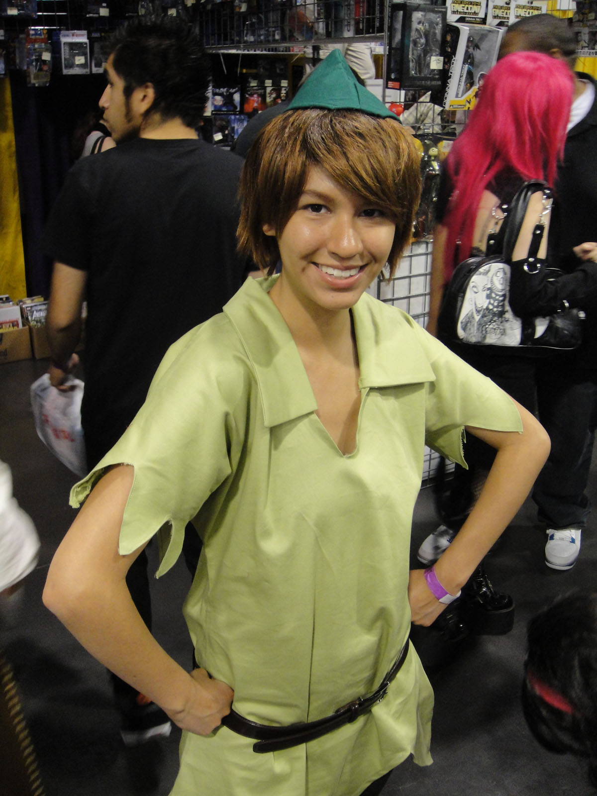 photo 2011 taken by Doug Kline If you're interested in higher resolution versions of my images, contact me via my profile page.